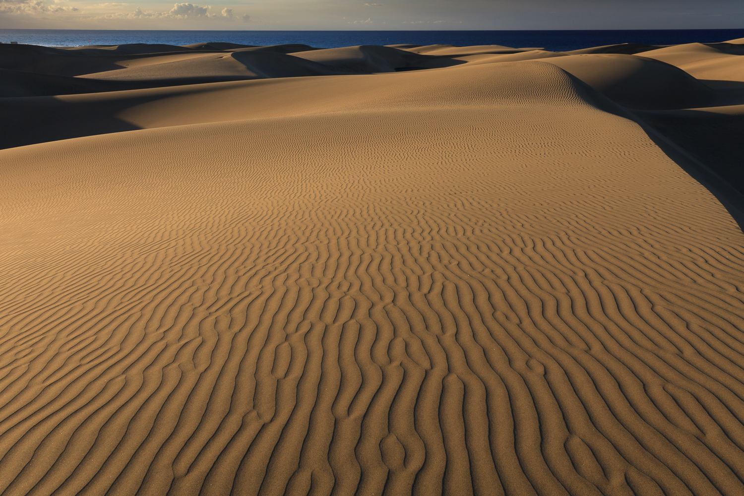 Dunas de Maspalomas Gran Canaria, Spain tunliweb